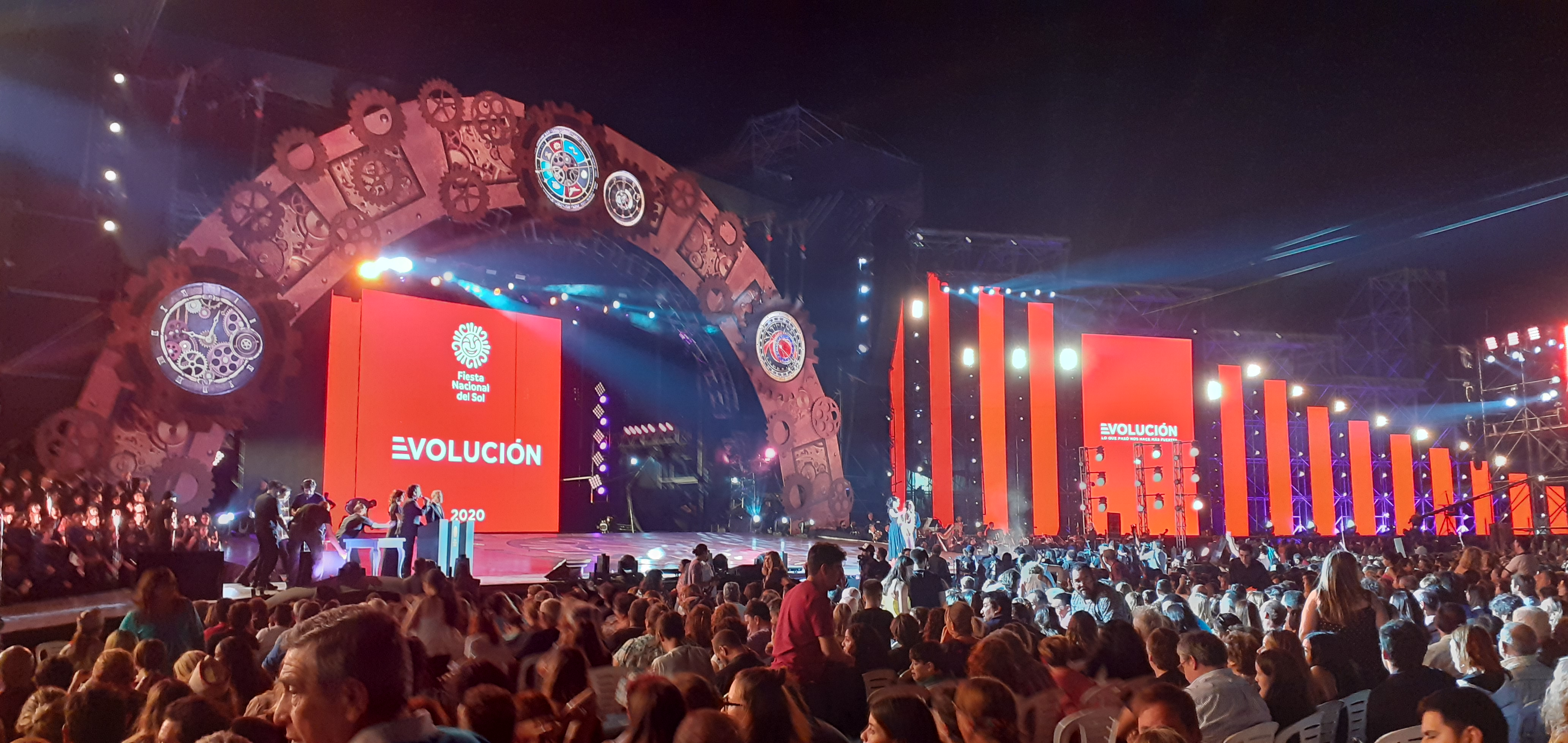 San Juan de Costanera stage, San Juan fair complex during the development of the final show of the Fiesta Nacional del Sol 2020, province of San Juan, Argentina